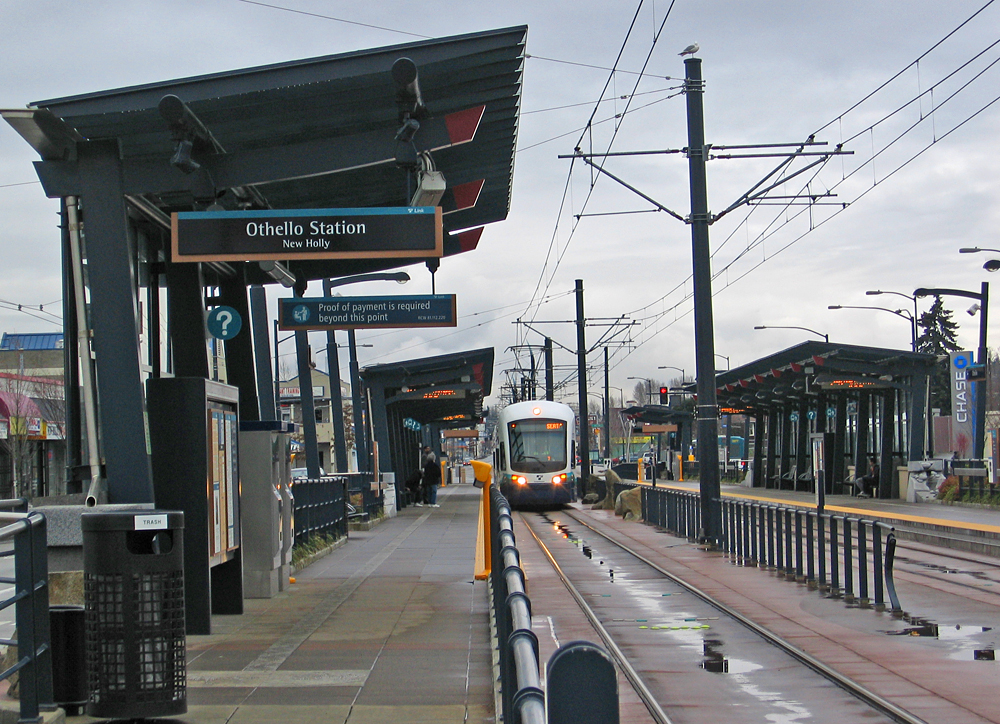 Train entering Light Rail Station. This work is licensed under a Creative Commons Attribution 3.0 United States License.